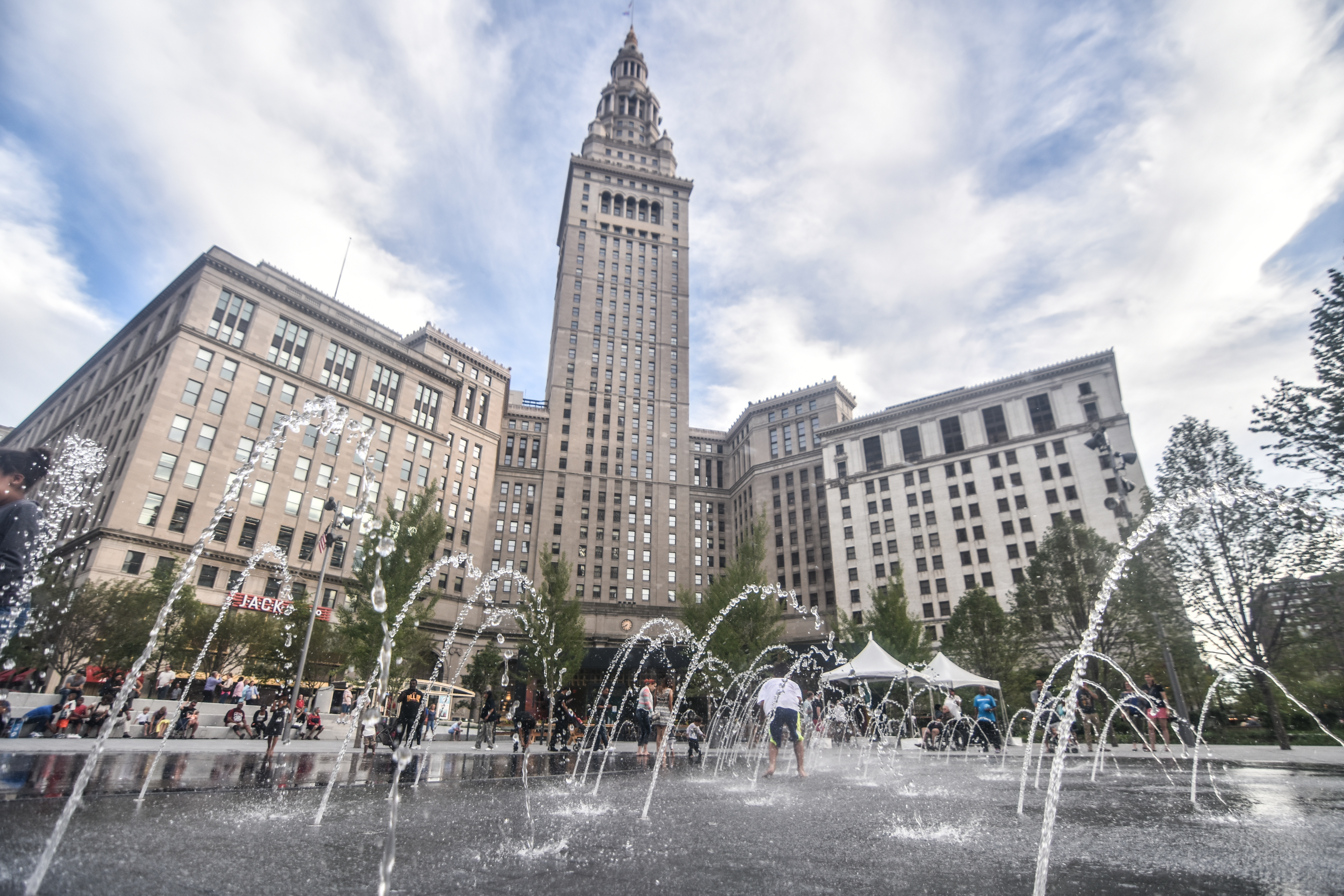 Cleveland Public Square Fountain